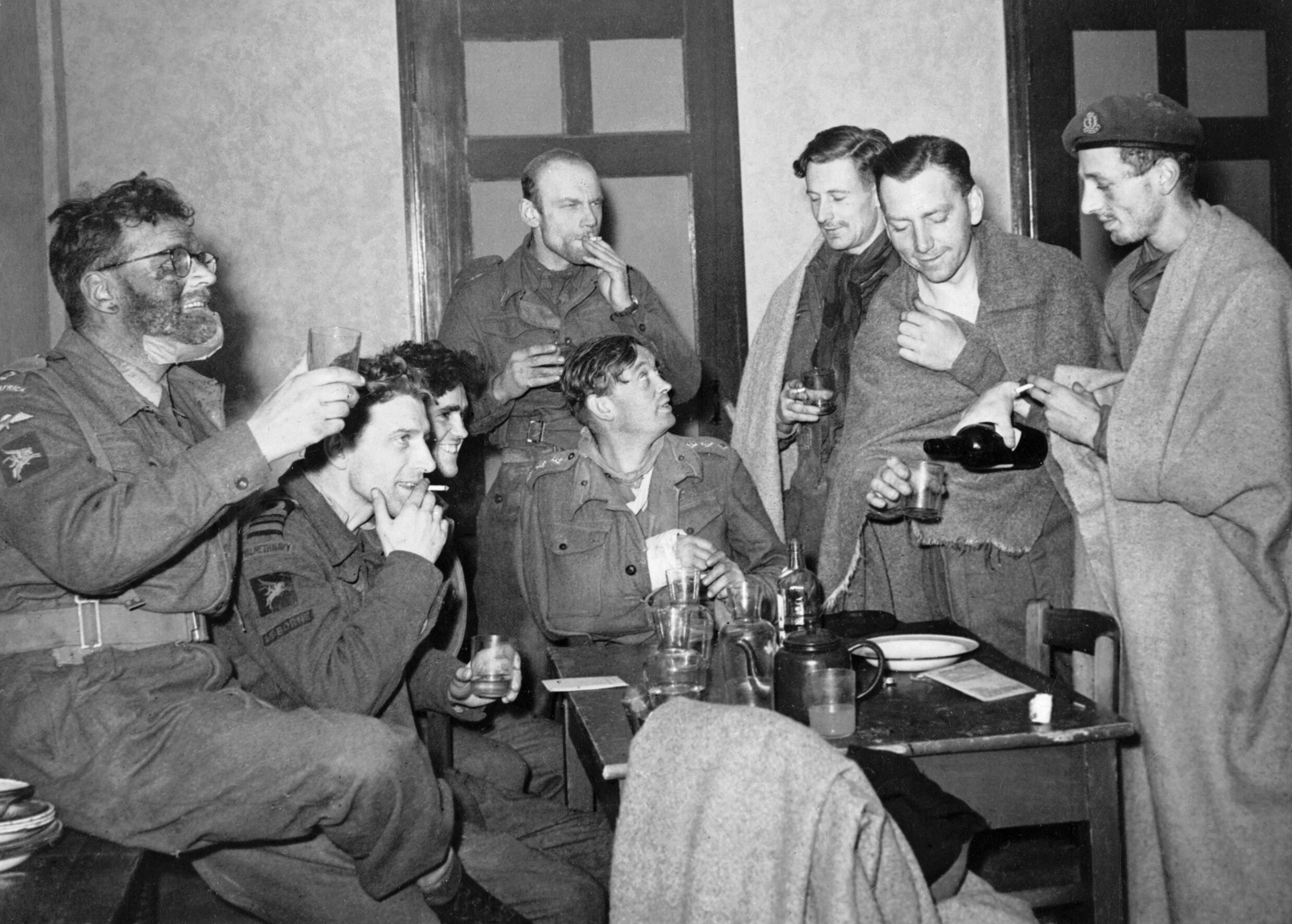 Operation 'market Garden' (the Battle For Arnhem)- 17 - 25 September 1944 Arnhem 17 - 25 September 1944: A group of survivors from the Arnhem Operation arriving at Nijmegen after the evacuation and having their first drink. One of them, Captain Jan Linzel (second from left) is a member of the Dutch Royal Navy attached to No 10 Commando.